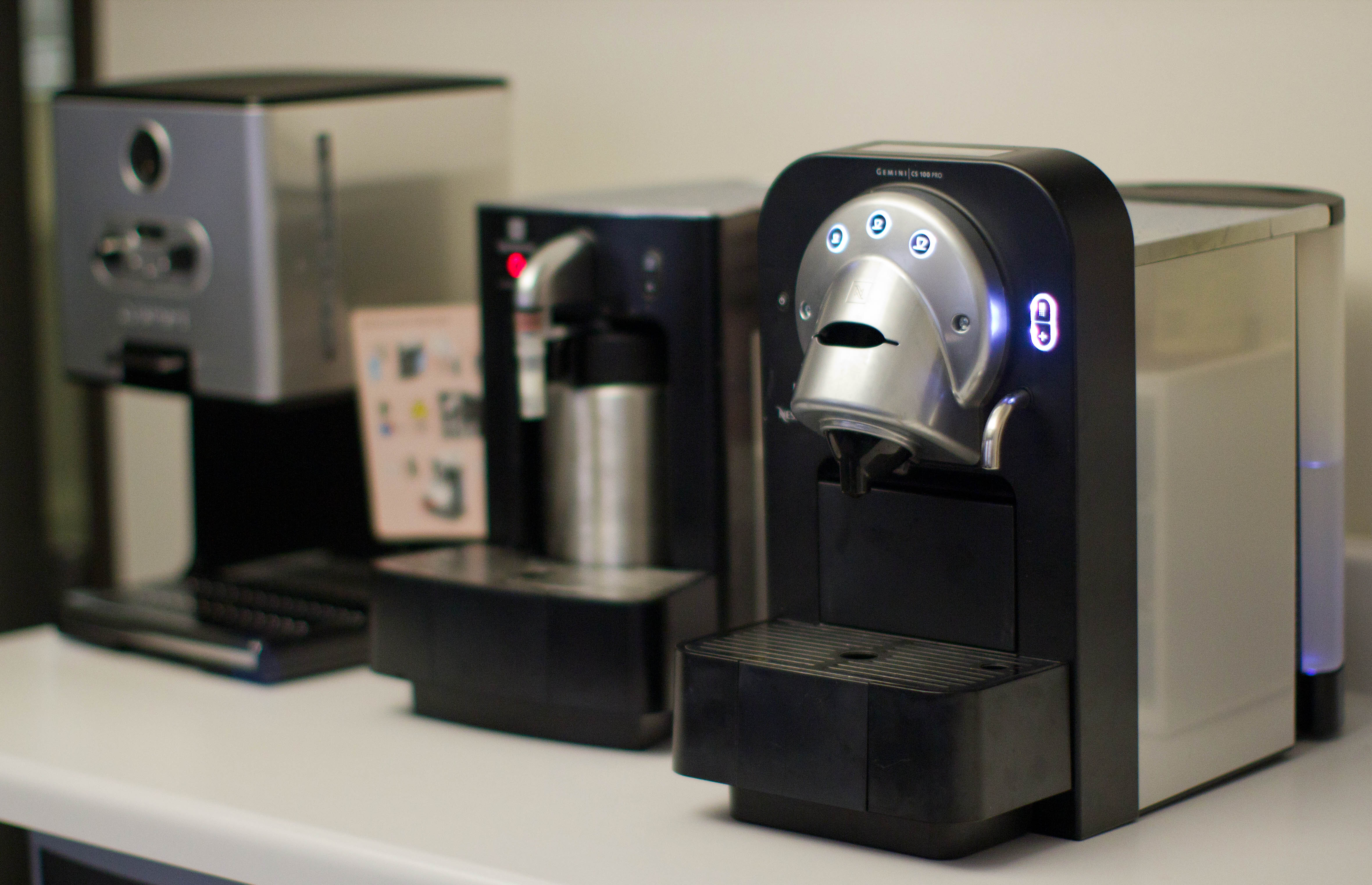 Coffee at the Wikimedia Foundation